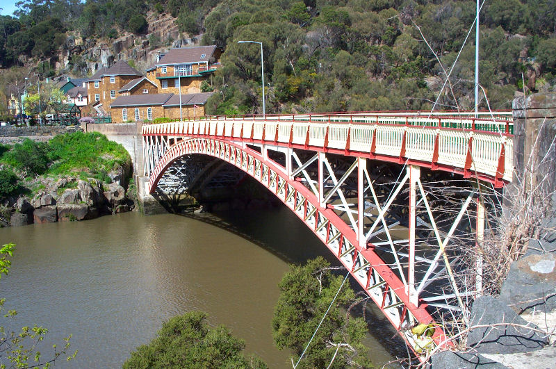 Kings Bridge in Cataract Gorge